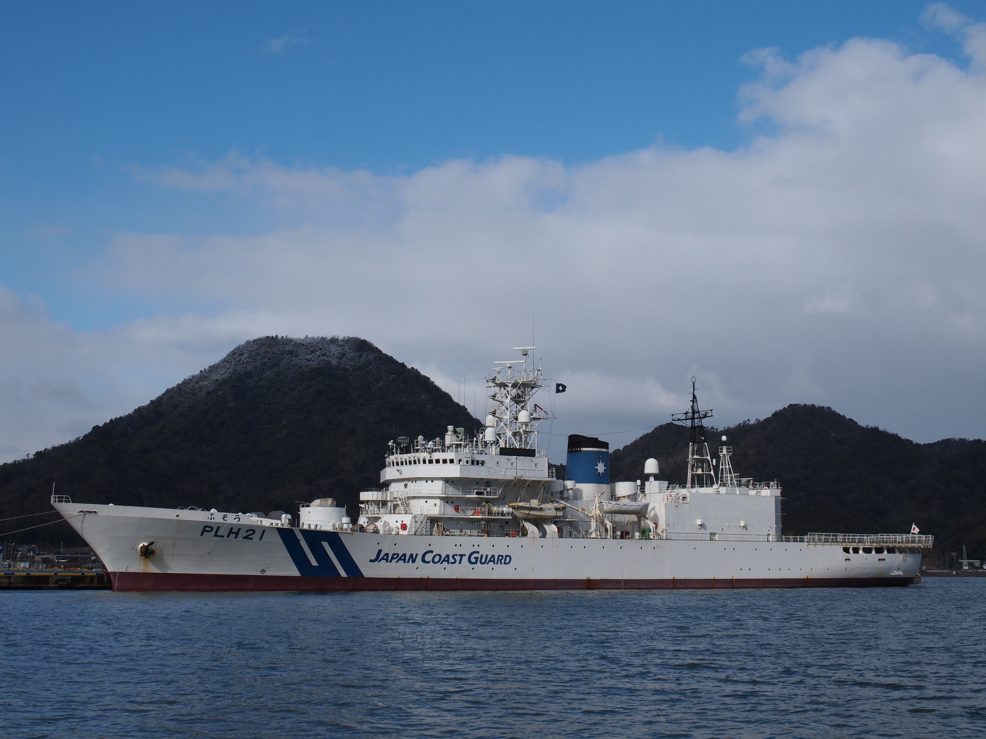 JCG (Japan Coast Guard) PLH 21 Fuso（Patrol vessel Large with Helicopters）